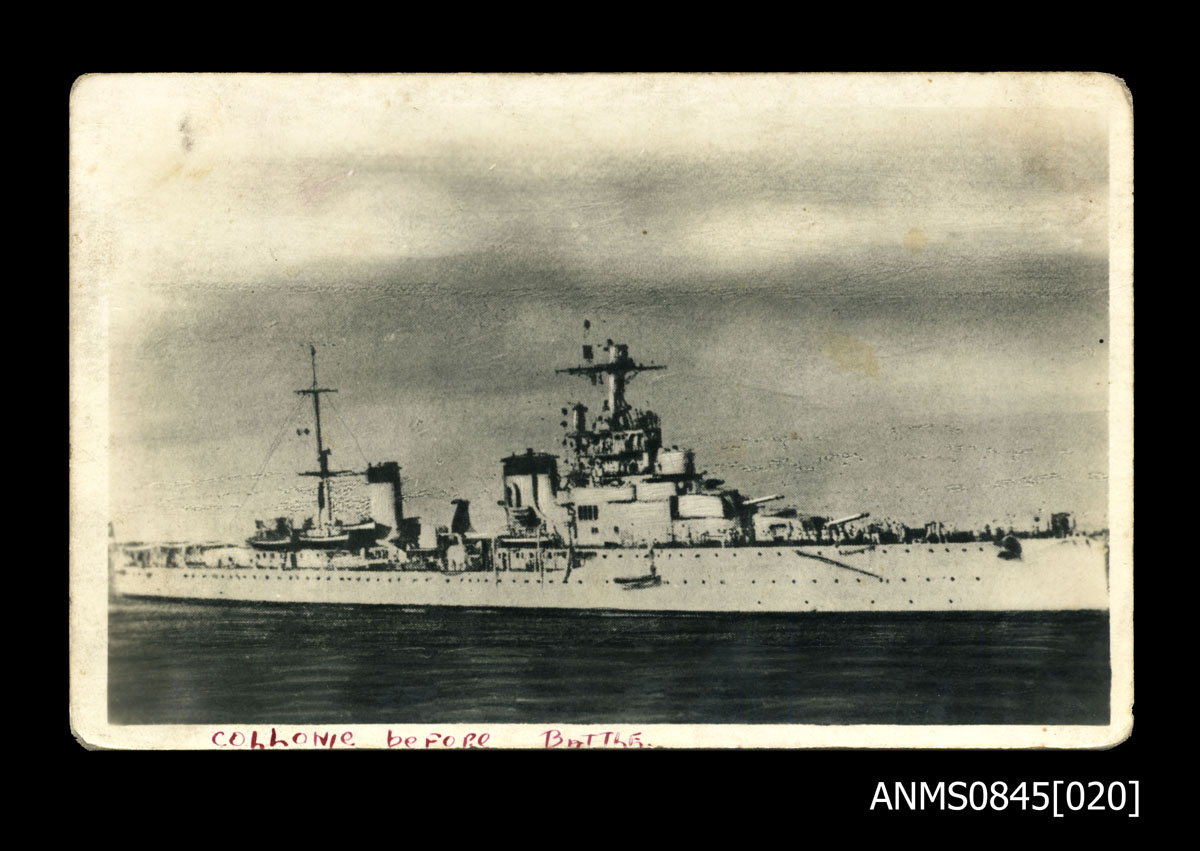 Able Seaman Arthur Thomas Wood was born 21 April 1921 at Berry in New South Wales, and joined the Royal Australian Navy in 1938 at the age of 17. After training at HMAS CEREBUS he joined HMAS SYDNEY in early 1939. When World War II was declared, SYDNEY was ordered to serve in the Mediterranean for escort duty. Wood was aboard SYDNEY when it sank the Italian cruisers ESPERO and BARTOLOMEO COLLEONI in July 1940. These photographs and postcards depict some of the sailors, equipment and activities of HMAS SYDNEY in the months prior to the sinking of the vessel. They provide an interesting commentary of the operations and work carried out aboard HMAS SYDNEY prior to its fateful end, such as the sinking of Italian ships ESPERO and BARTOLOMEO COLLEONI in the Mediterranean. The Australian National Maritime Museum undertakes research and accepts public comments that enhance the information we hold about images in our collection. If you can identify a person, vessel or landmark, write the details in the Comments box below. Thank you for helping caption this important historical image. Object number ANMS0845[020].